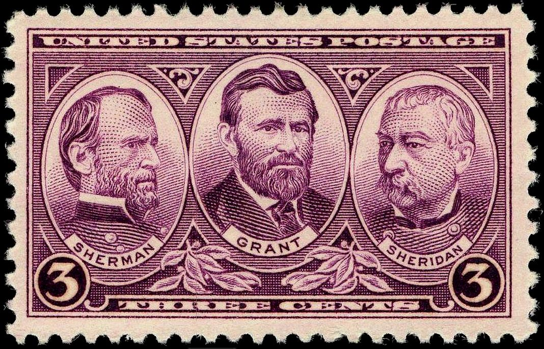 U.S. Postage Stamp, commemoratingWilliam T.Sherman and Ulysses S. Grant and Philip Sheridan, Army Issue of 1937, 3c, violet President Theodore Roosevelt originally for a series of U.S. Postage stamps commemoratingthe Army, Navy and various war heros of the American Revolution, the War of 1812 and theAmerican Civil War. His dream was never realized until 1937 when President Franklin D. Roosevelt,who was a serious stamp collector himself, urged congress and the U.S. Post Office to issue thelong overdue Army and Navy Issue of 1937; Ten stamps consisting of two sets of five, one each for the Army and Navy, with denominations of 1c, 2c, 3c, 4c and 5c.